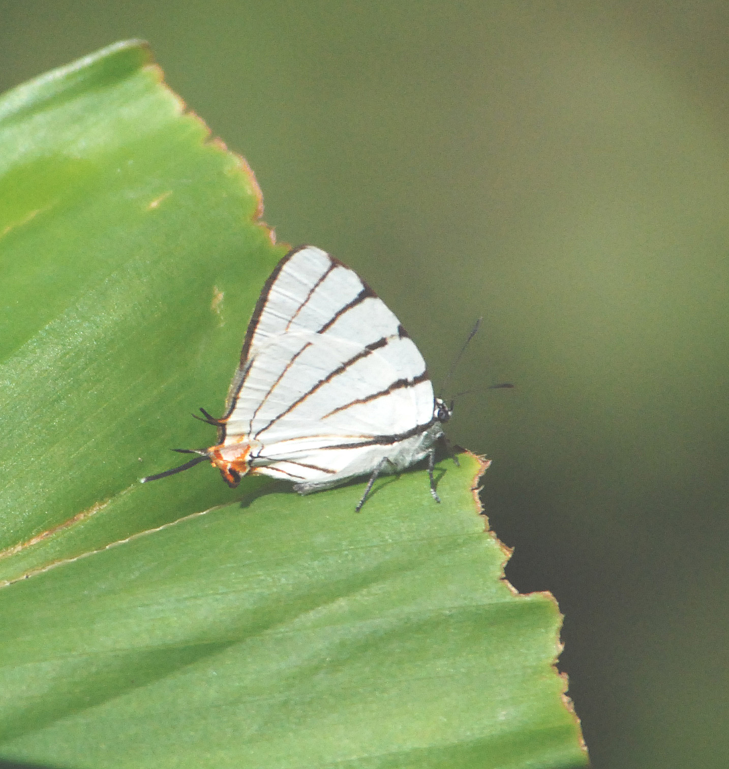 Fine-lined Stripestreak (Arawacus sito) at La Soledad, Oaxaca, Mexico, 080328. Arawacus sito.